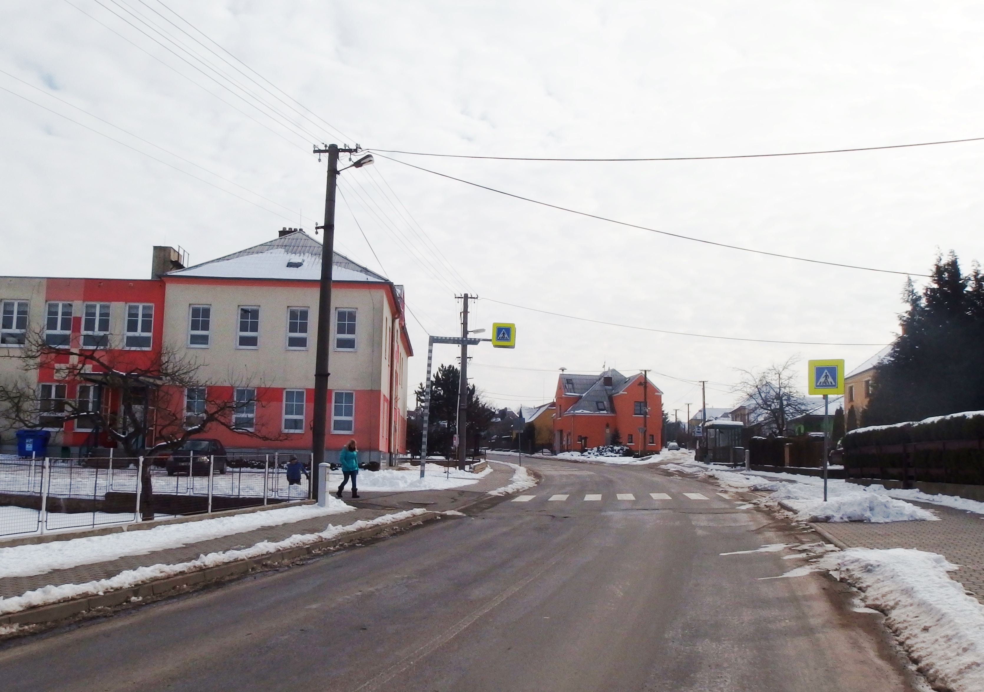 Kotvrdovice, Blansko District, Czech Republic.